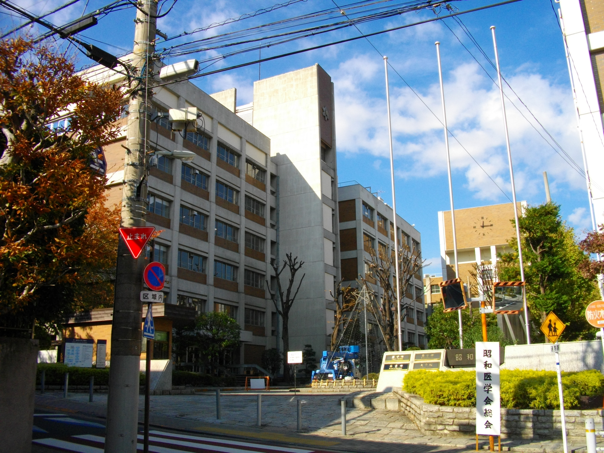 Showa University